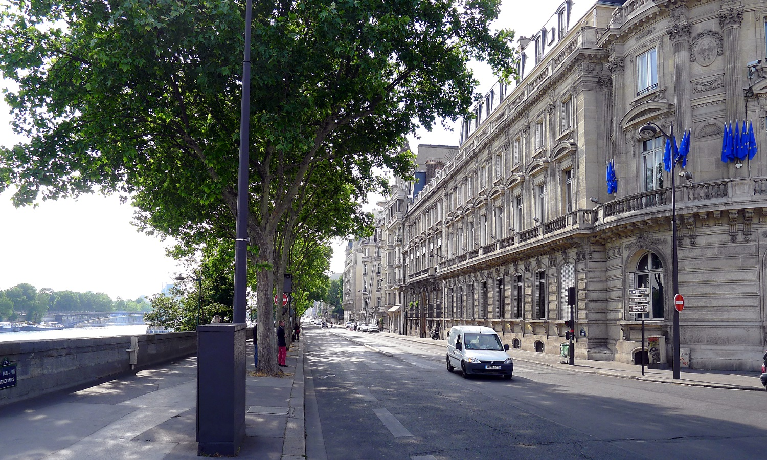 Quai Anatole-France - Paris